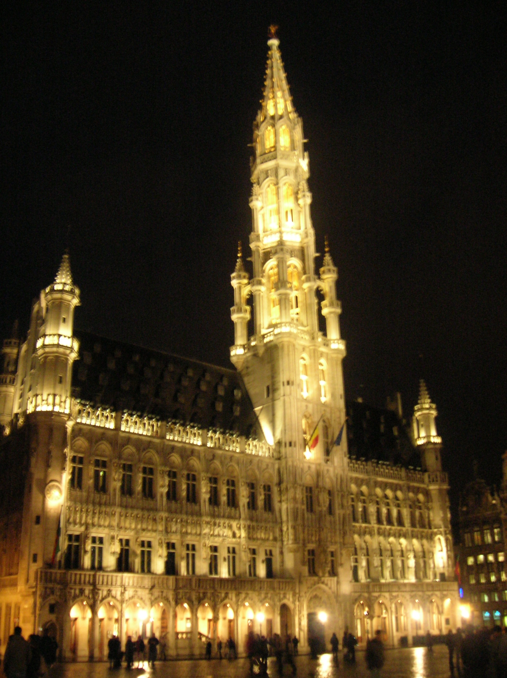 Brussels Town Hall by night